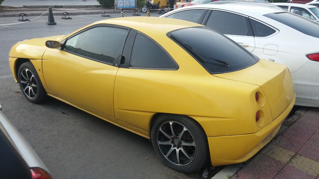 Fiat Coupé photographed in Beijing, China.